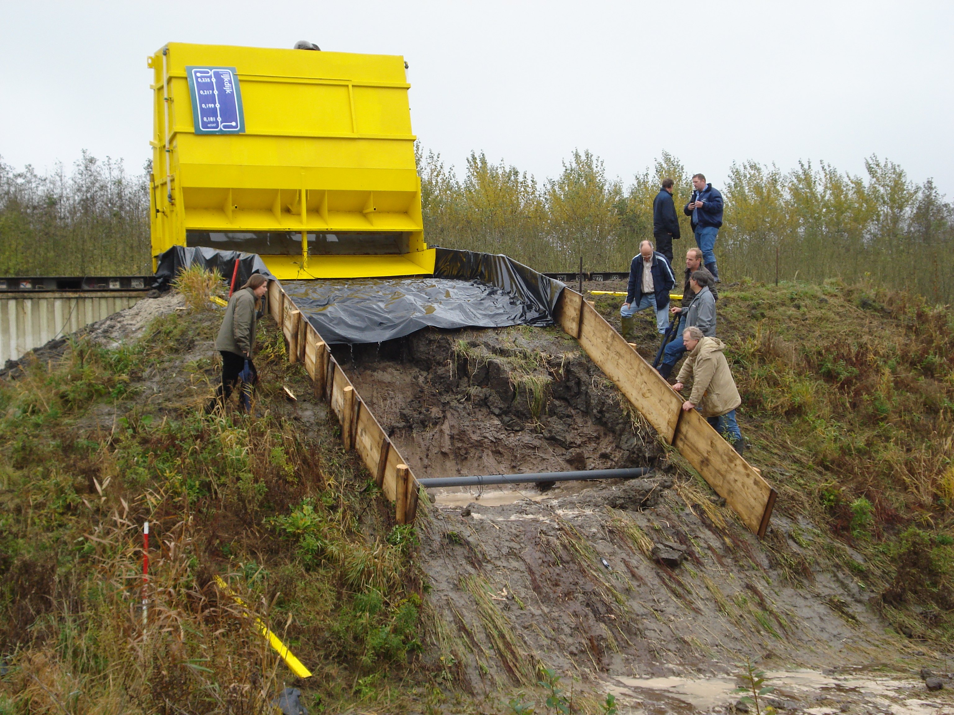 Result of the first wave over topping experiment at IJkdijk